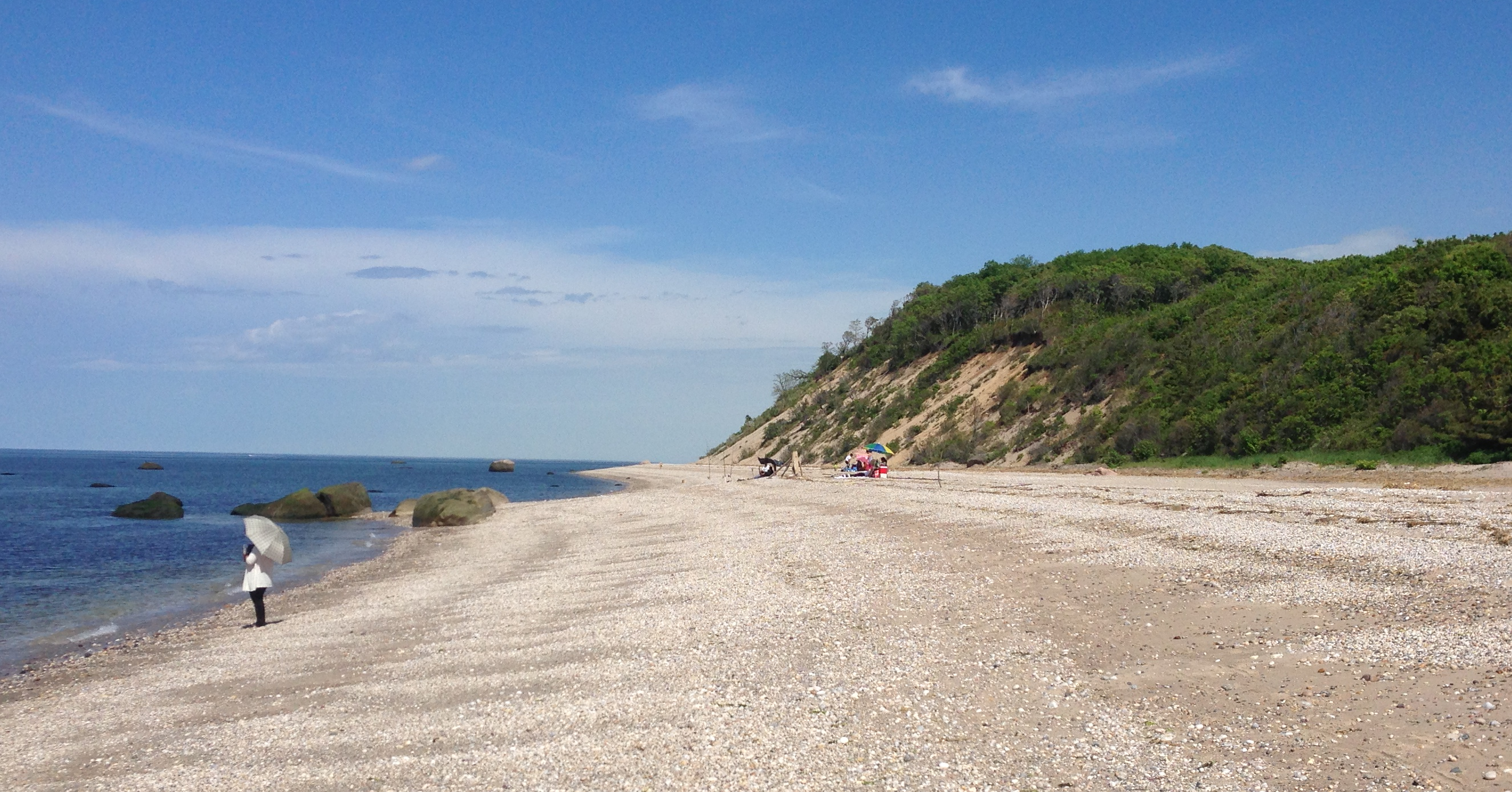 Miller Place Beach in Miller Place, New York